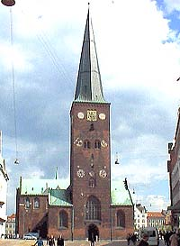 Århus Domkirke, Denmark